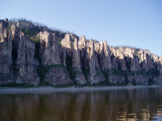 Picture taken from small river cruise ship.